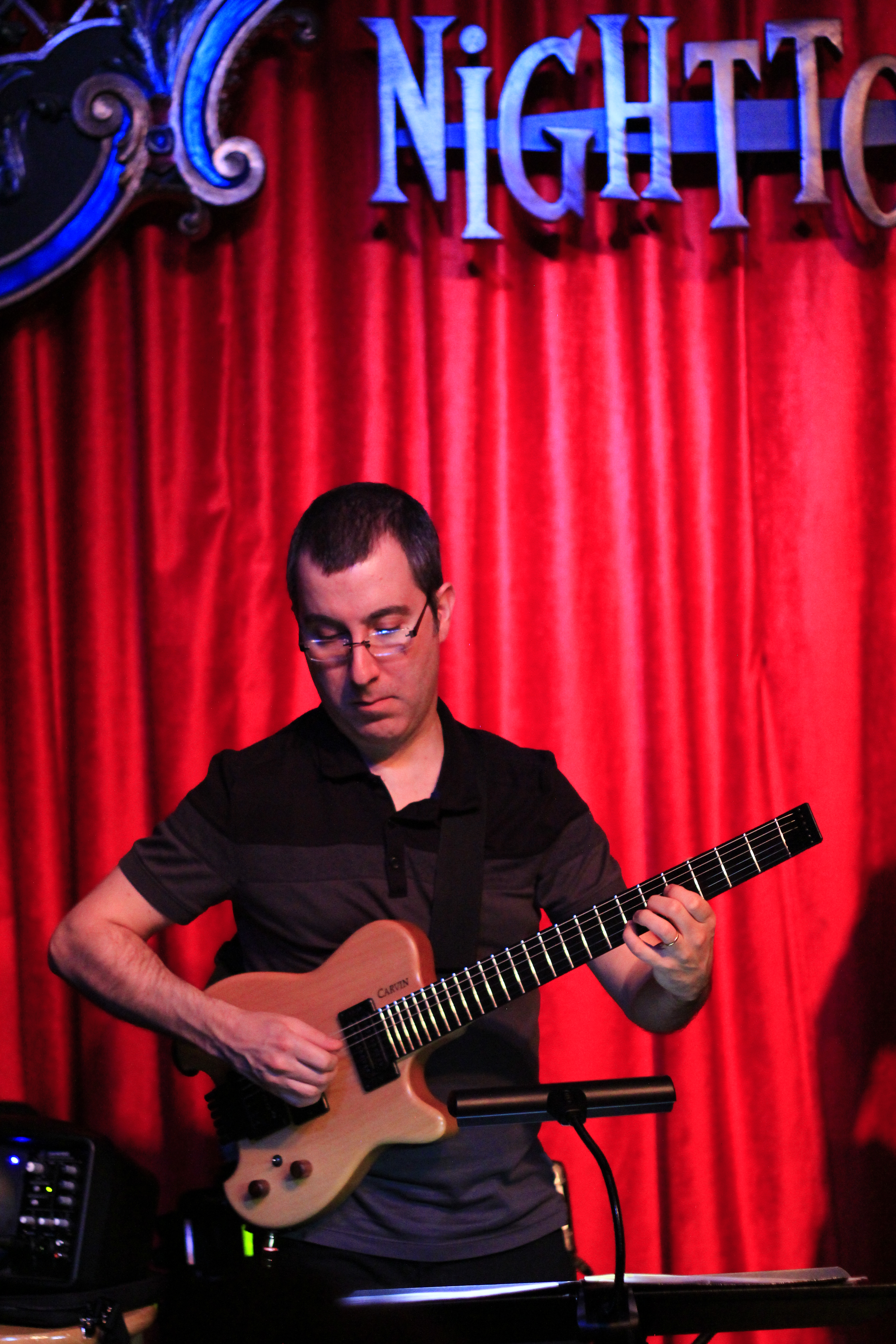 Gustavo Assis-Brasil at Nightown 2014, Cleveland OH, USA